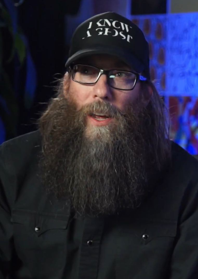 Christian musician David Crowder being interviewed in August 2018